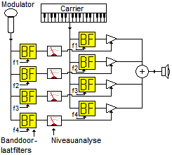 Block diagram of a vocoder with four frequency bands.